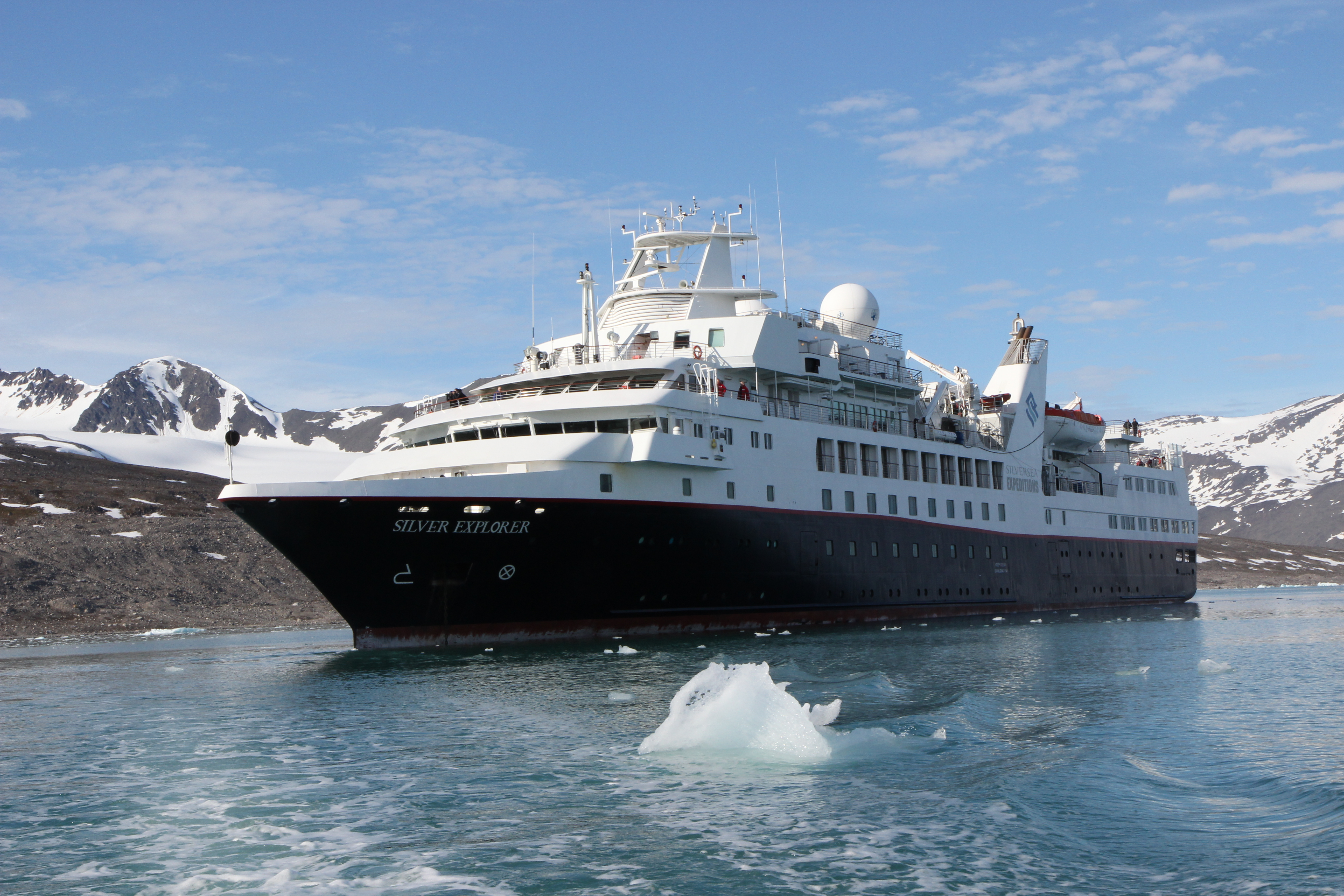 Taken on my Silversea Silver Explorer Arctic cruise. For more on their Arctic expedition cruises visit bit.ly/ArcticCruise